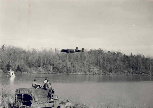 A B-25 Mitchell from Greenville Army Air Base practices skip-bombing at the Isaqueena bombing range near Clemson, South Carolina.